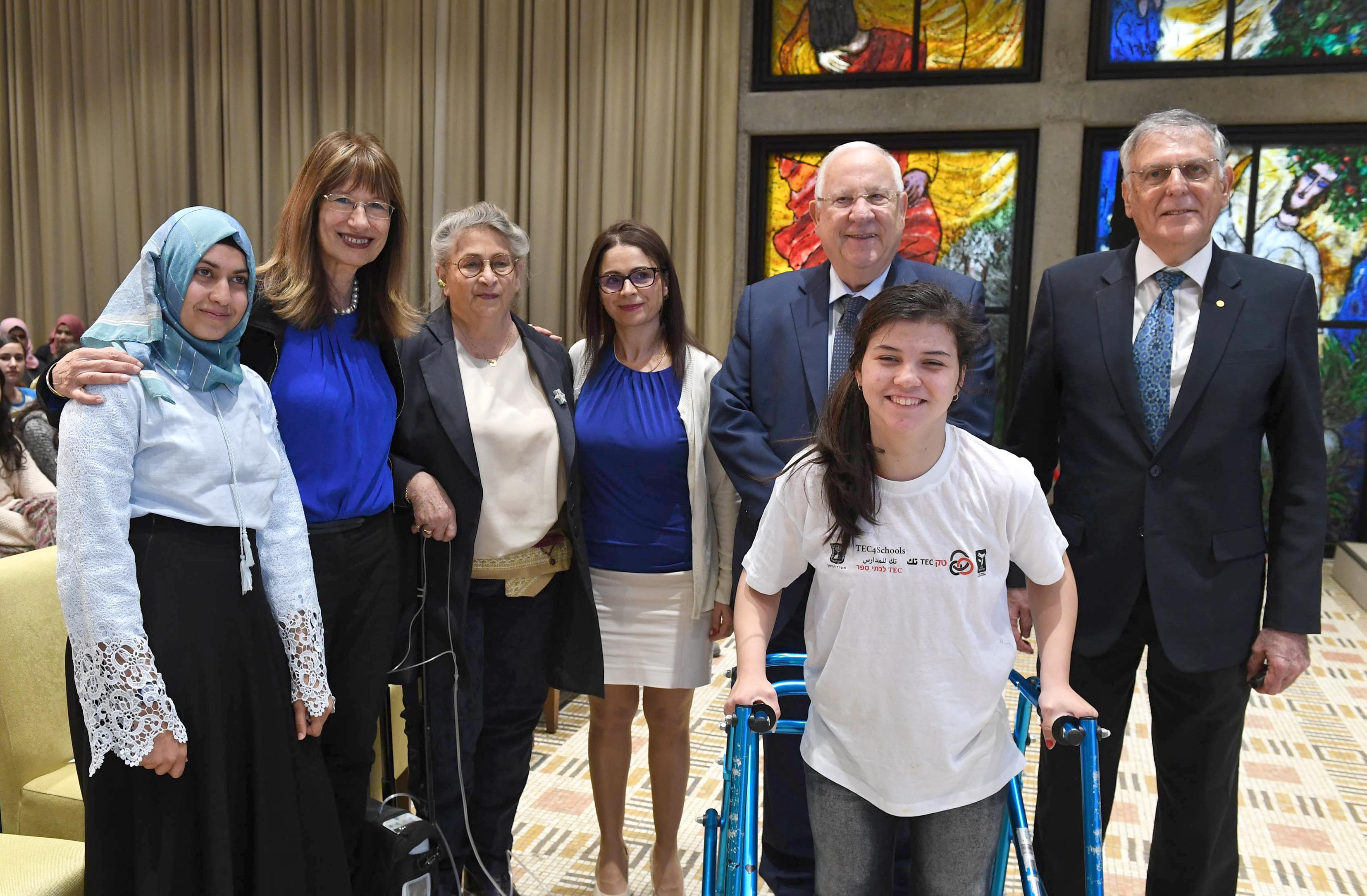 The President of Israel, Reuven Rivlin, and his wife host the Mada VeDaat (science and knowledge) event of the Israel Academy of Sciences and Humanities to mark 70 years of science in Israel. Wednesday, March 14, 2018. Photo Credit: Mark Neyman / GPO.